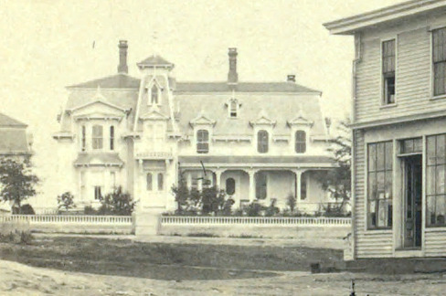 Moses Webster House, Vinalhaven, Maine. This is a cropped and partially color-corrected version of File:Mr. Webster's residence, from Robert N. Dennis collection of stereoscopic views.jpg.